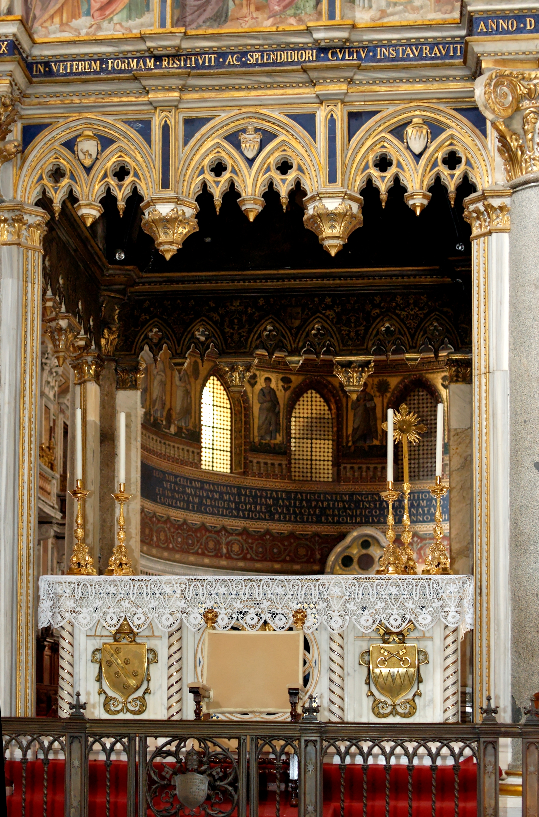 Papal altar, Basilica of St. John Lateran (Rome).